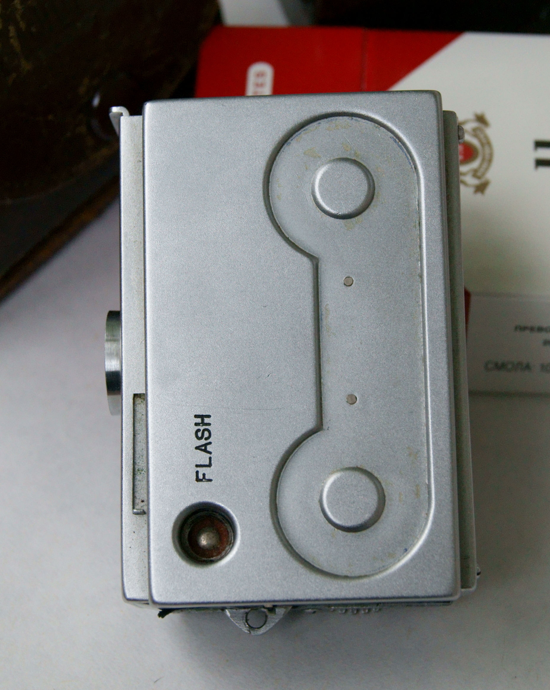 The shutter is synchronized for flash. Unfortunately lining on the back cover is lost.